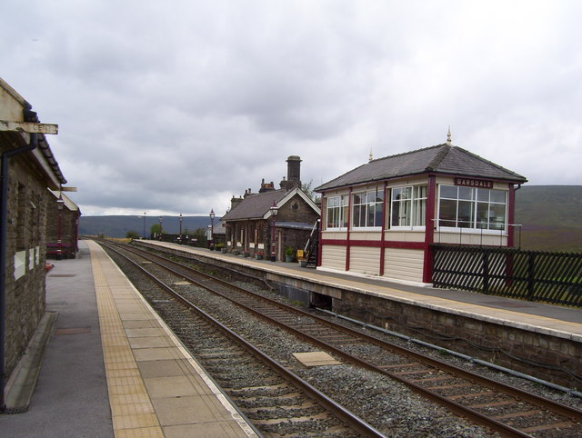 Garsdale Station A view looking south of Garsdale Station on the Settle to Carlisle line. To the right of the waiting room behind the signal box are some former railway workers houses, some of which are available to rent, my wife and I have stayed in one of the cottages a number of times with our dogs, and we firmly believe that this cottage is haunted as during our stay, several strange and unexplainable things happened.